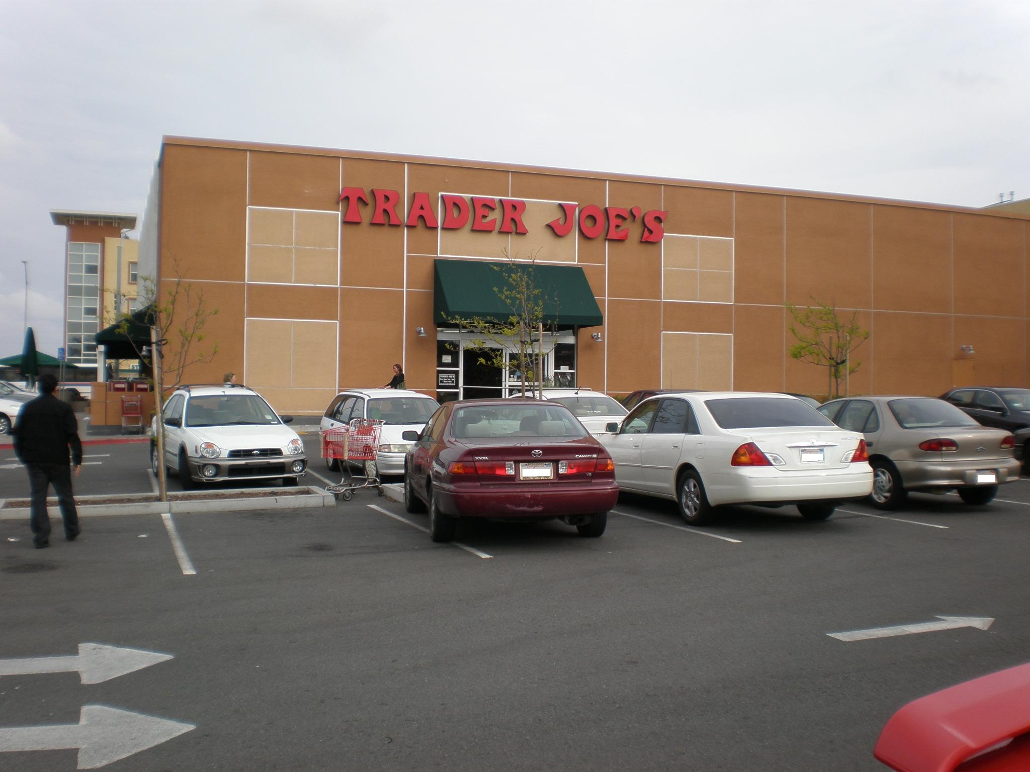 The Trader Joe's at 301 McLellan Drive in South San Francisco, Calfiornia.